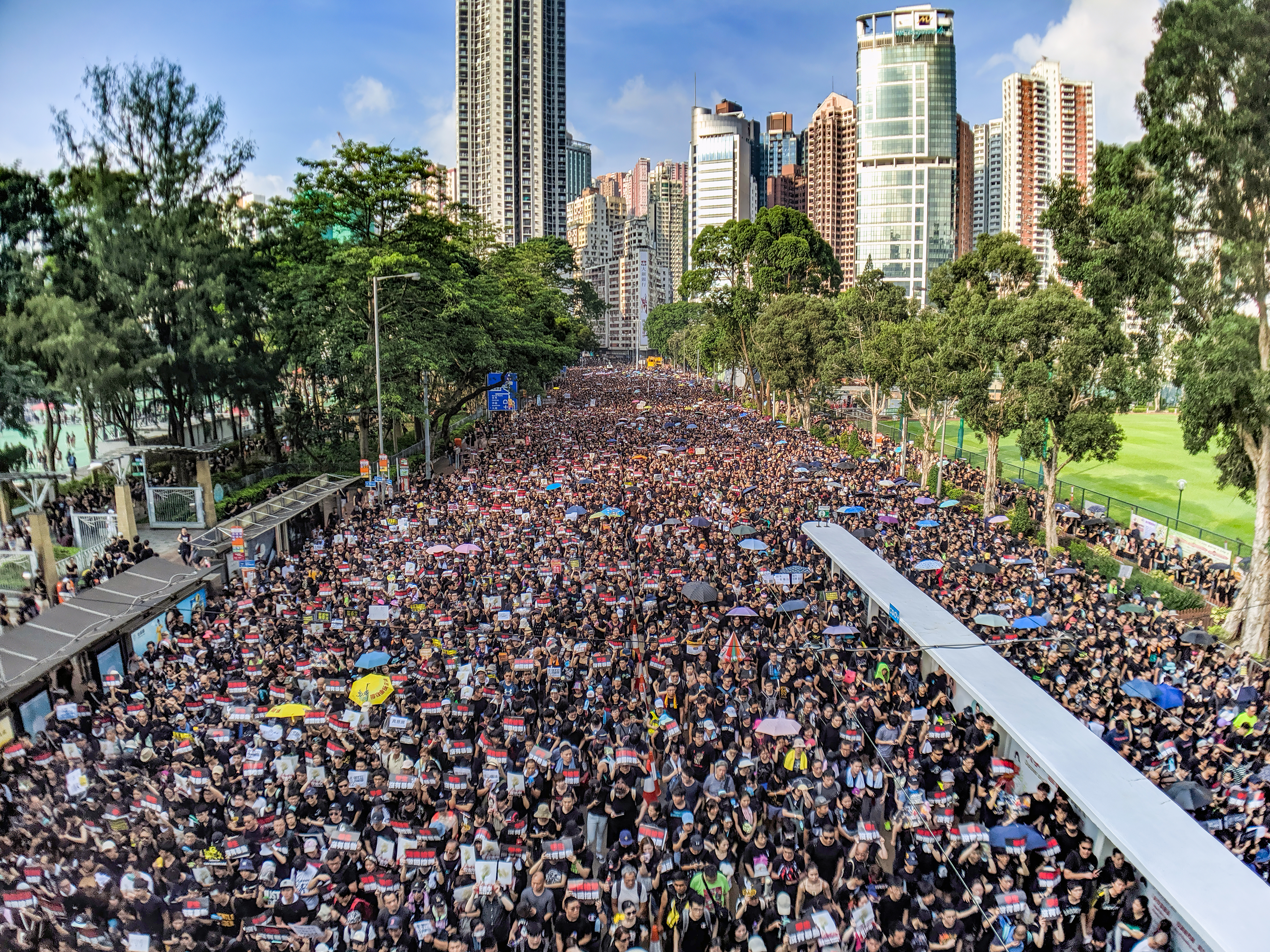 2019 Hong Kong anti-extradition bill protest